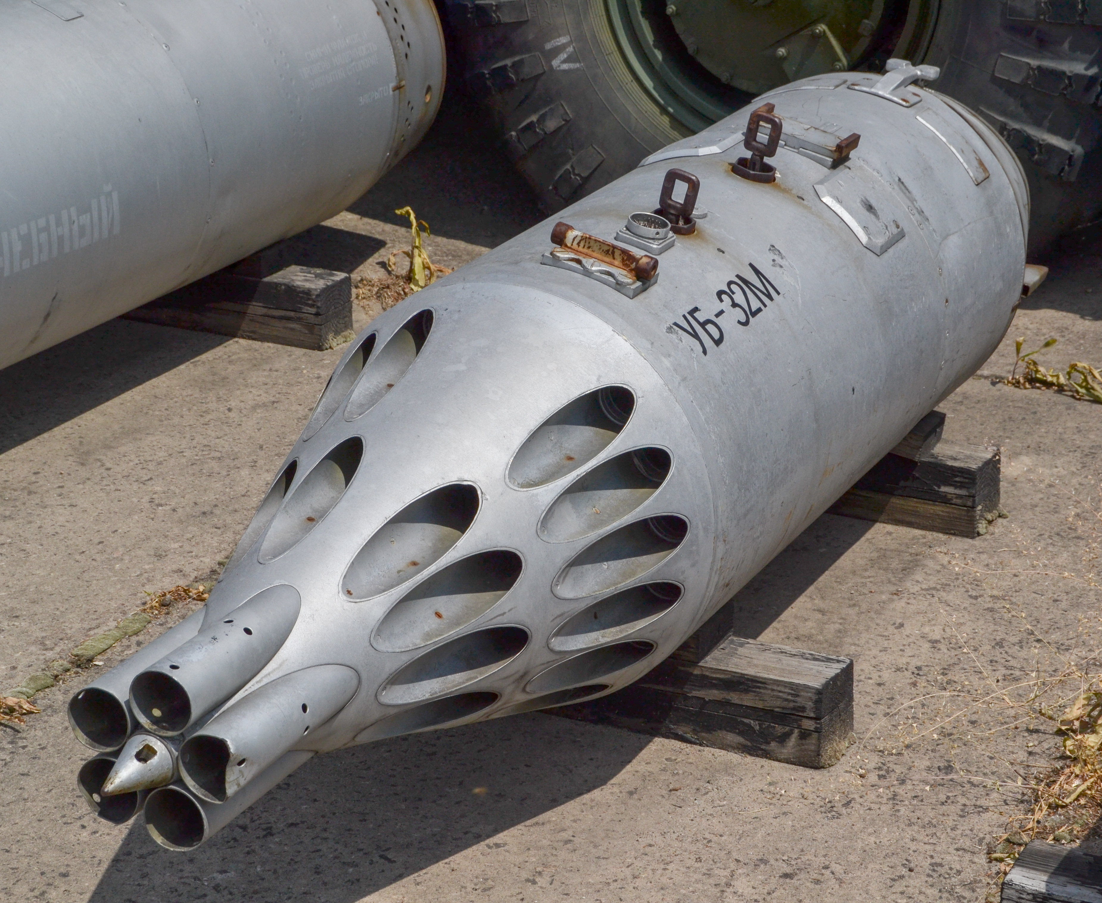 The UB-32M rocket pod which has been removed from a Soviet Sukhoi aircraft.